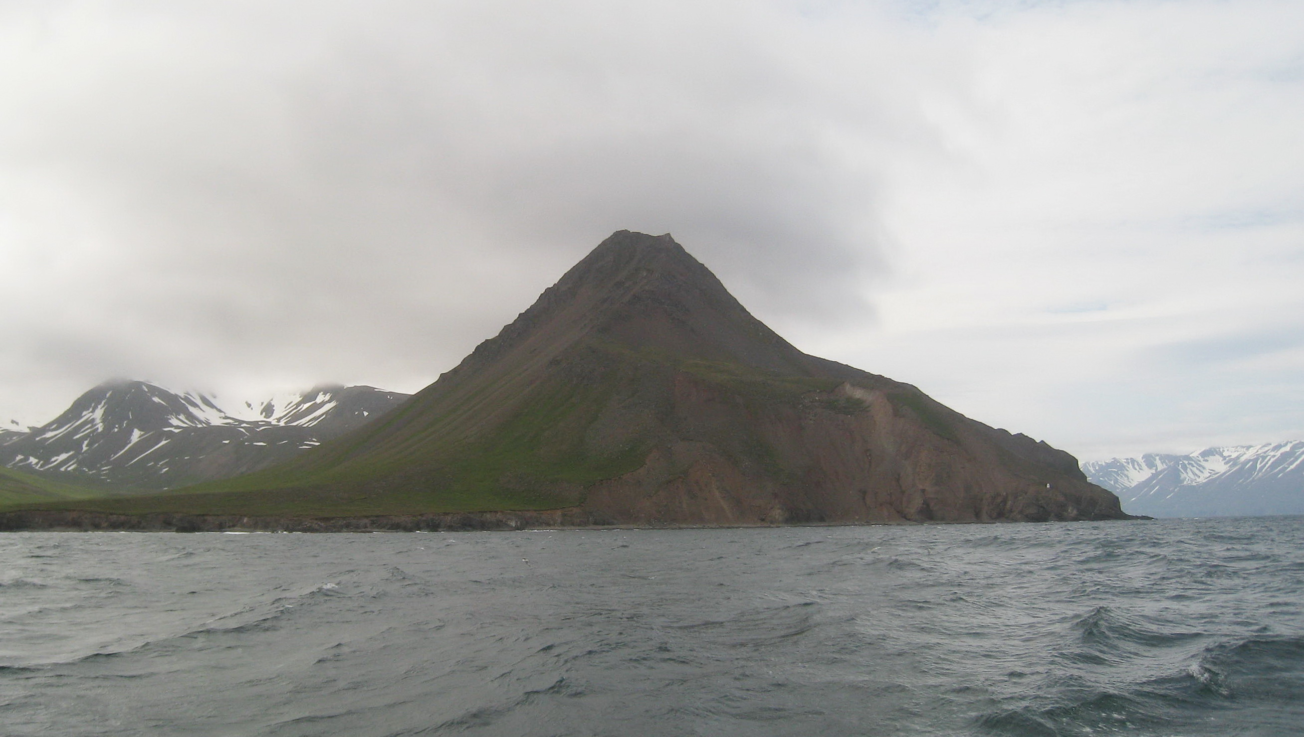 Mt. Gjögur (north face) as seen from the sea. To the left is Keflavík cove.